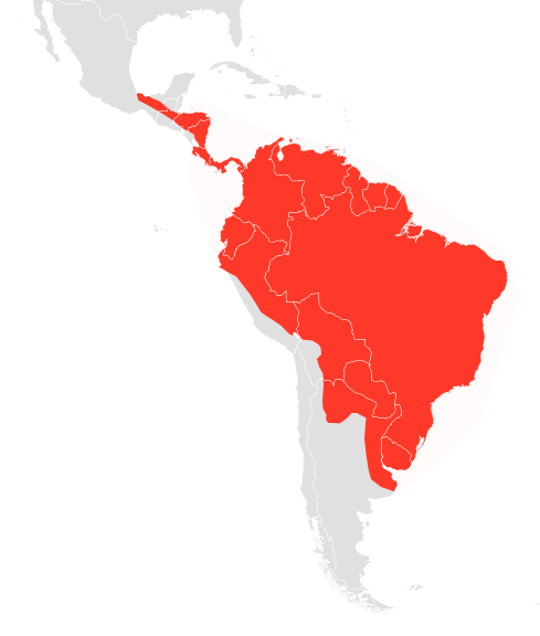 Distribution of Myotis albescens